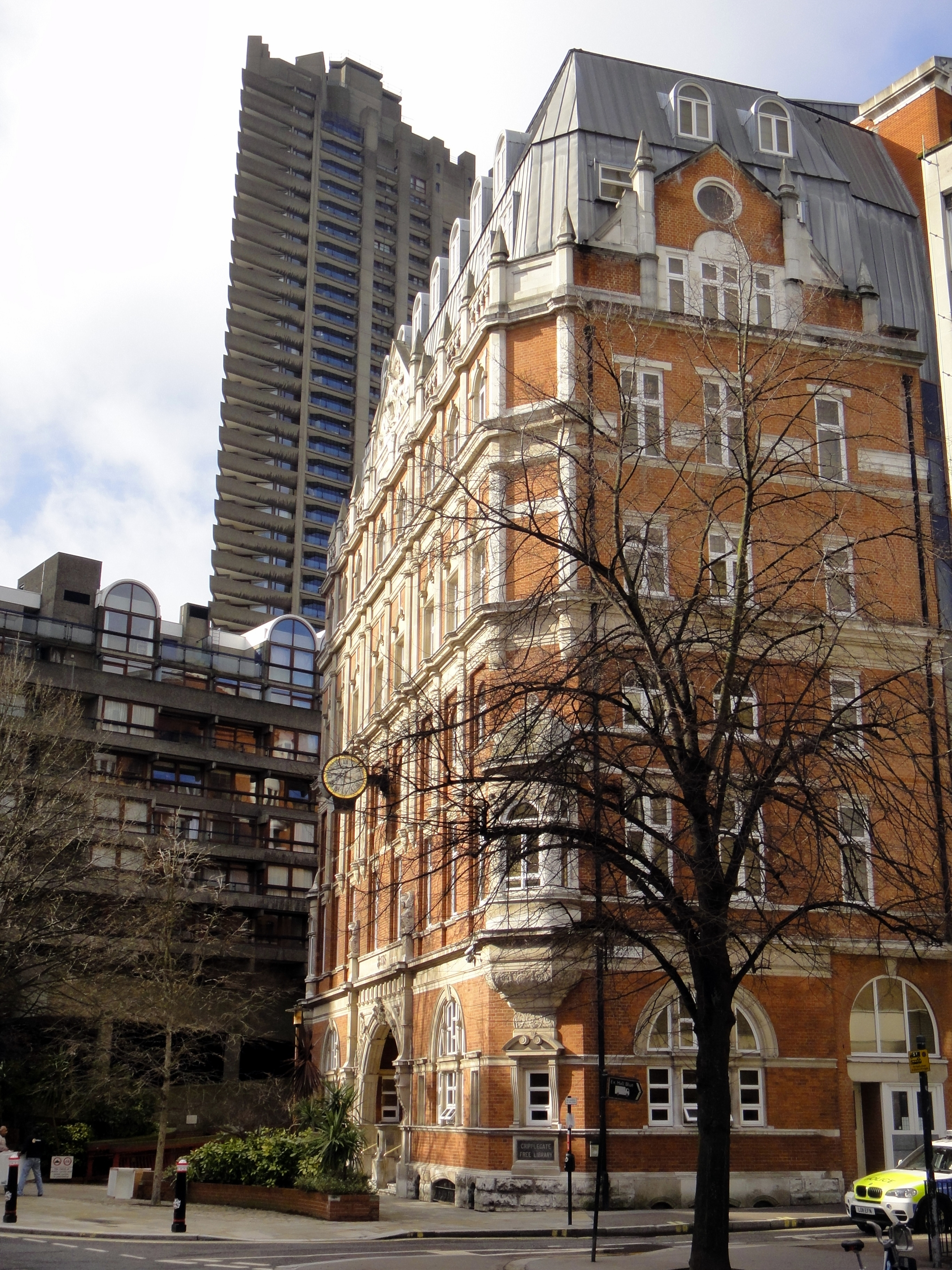 Cripplegate free library. Grade II listed building, built in 1895 now office building for the UBS.